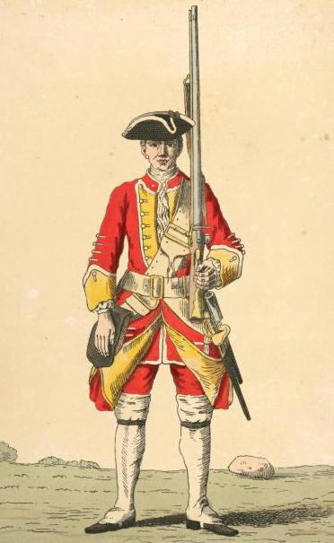 Soldier of the 16th regiment (1742)